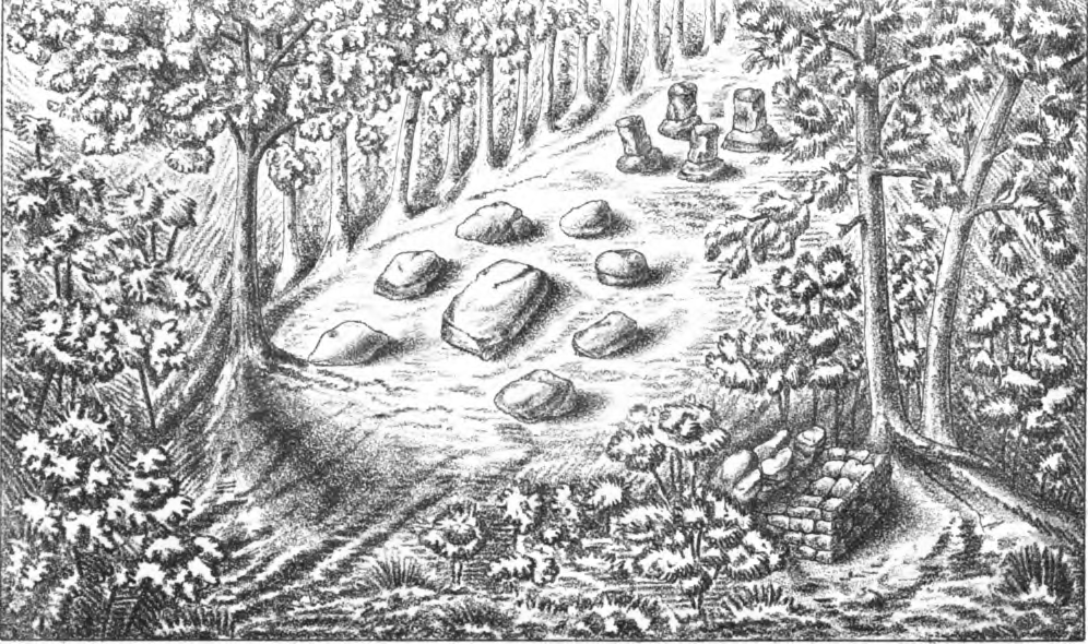 Reconstruction drawing of the megalithic tomb near Laer